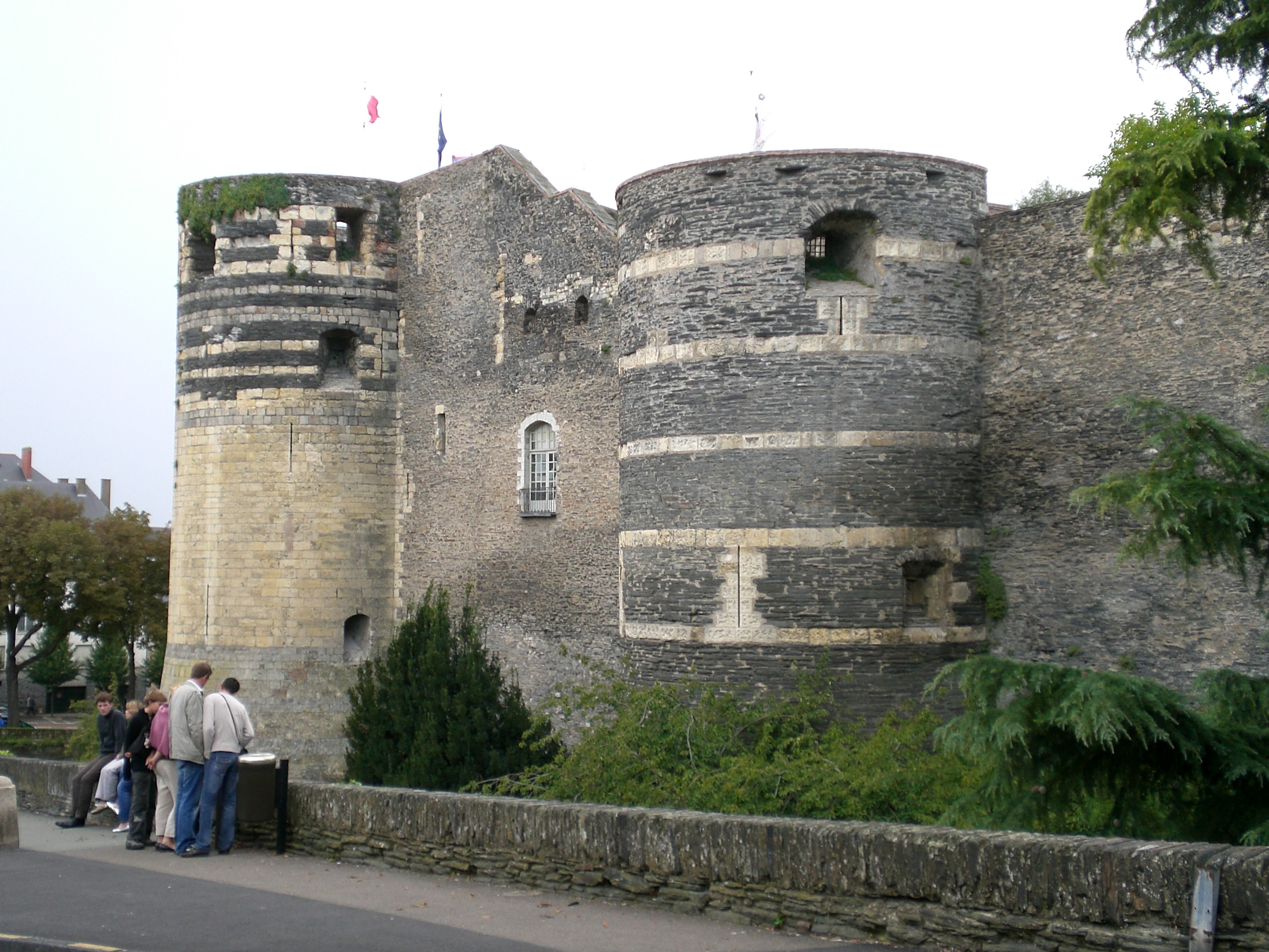 Tours du Château d'Angers. It is indexed in the Base Mérimée, a database of architectural heritage maintained by the French Ministry of Culture, under the references IA49000839 and PA00108871.